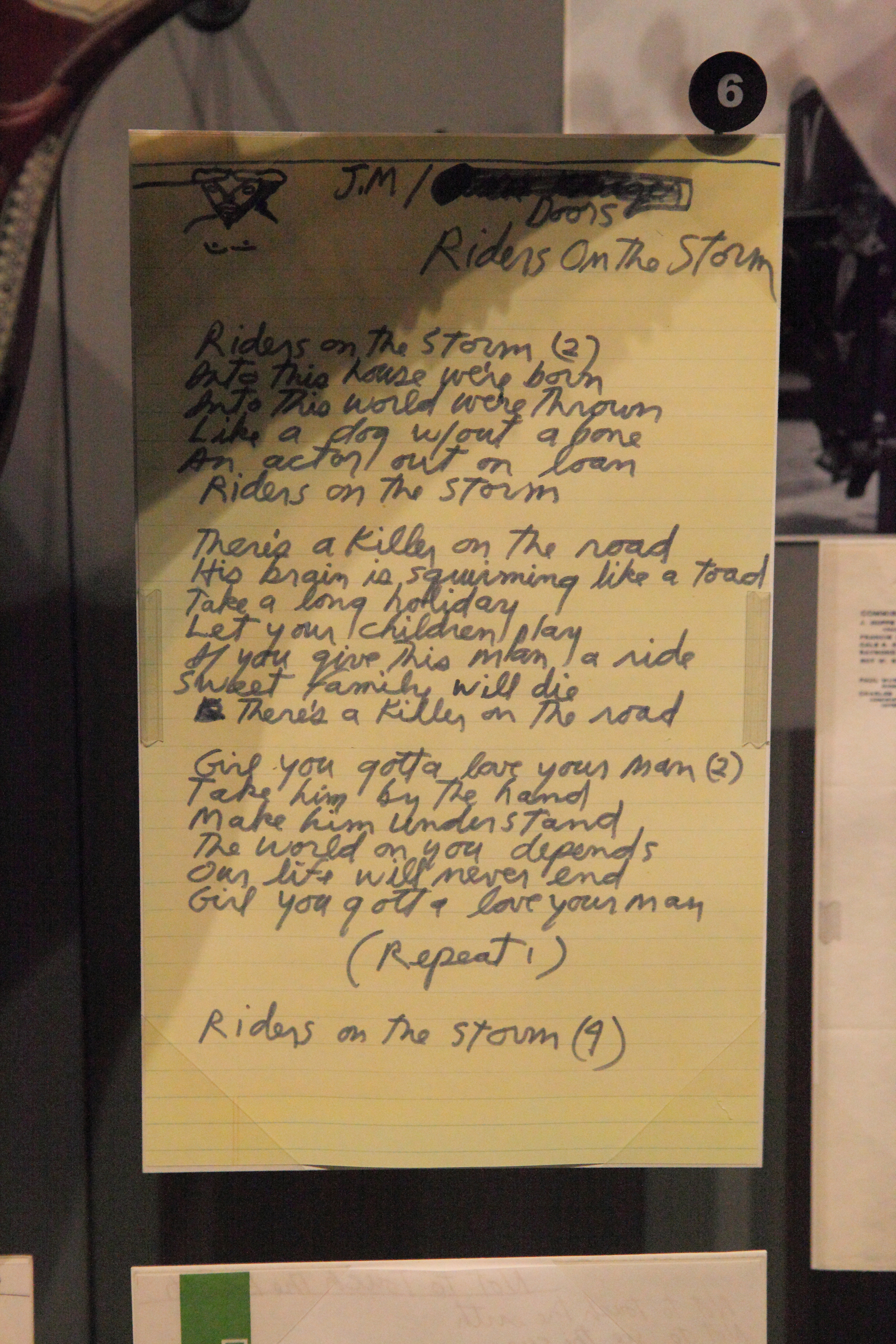 Handwritten lyrics to "Riders on the Storm" by Jim Morrison from The Doors at the Rock and Roll Hall of Fame in Cleveland, Ohio. Flickr Tags: ohio lyrics cleveland handwritten jimmorrison thedoors rockandrollhalloffame ridersonthestorm. Flickr Tags: Rock and Roll Hall of Fame Cleveland Ohio. from Flickr album "Rock and Roll Hall of Fame" by Sam Howzit